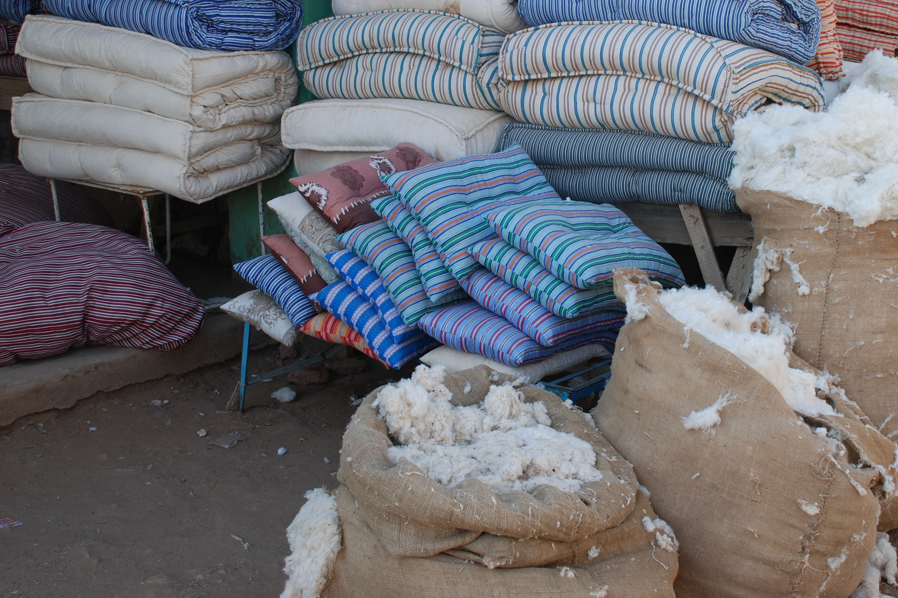 Cotton in Wad Medani market, Sudan